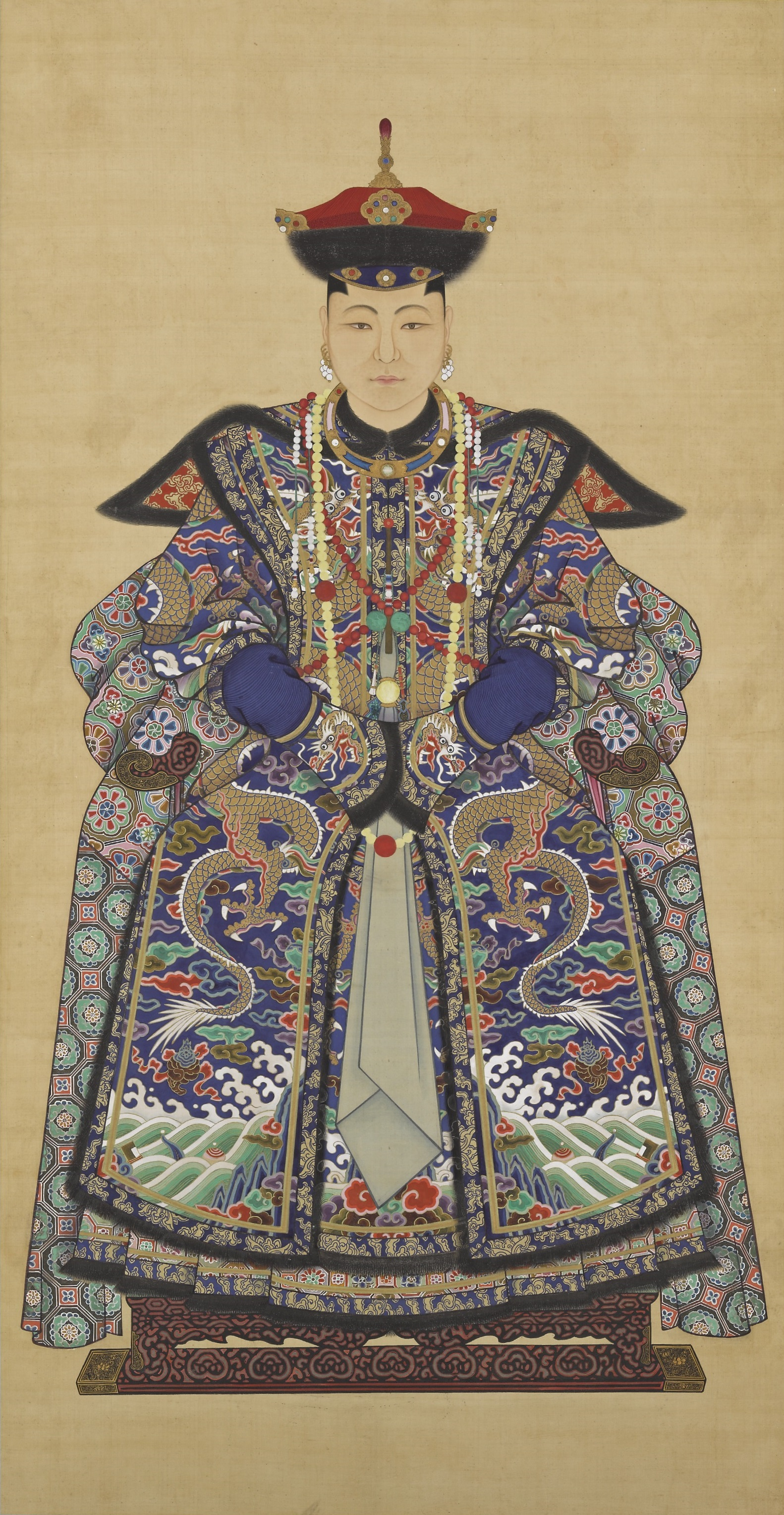 Portrait de Sumalagu